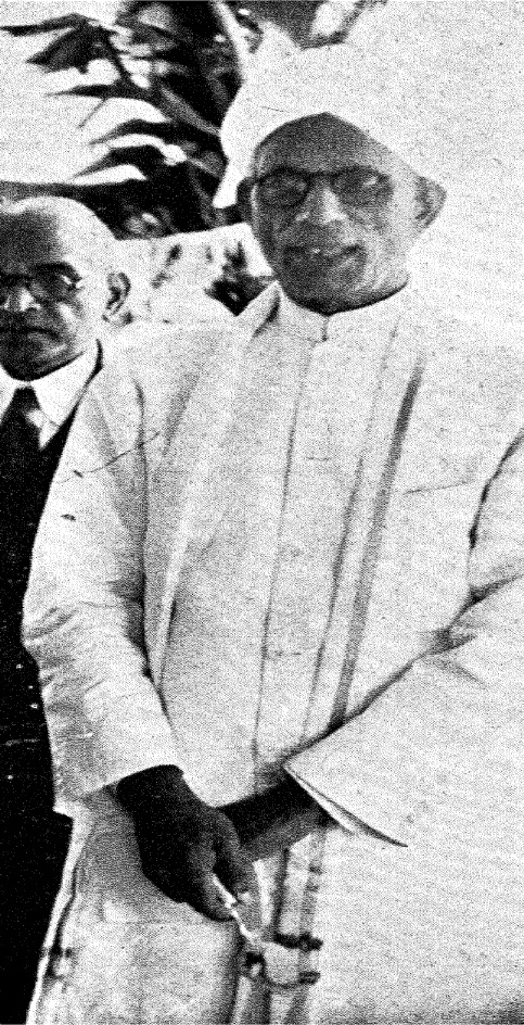 Portrait of T. R. Venkatarama Sastri